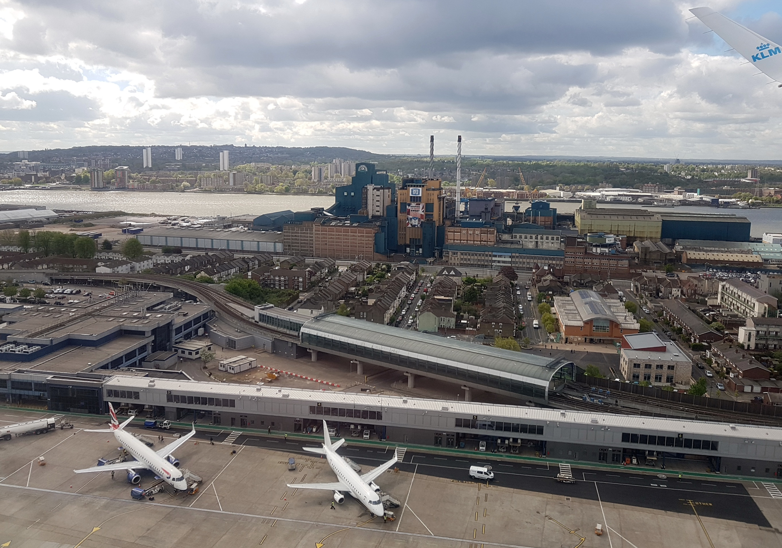 Aerial view of London City airport, shortly after take-off, with Silvertown and Tate & Lyle south of the Thames, and Woolwich and Shooters Hill north of river.